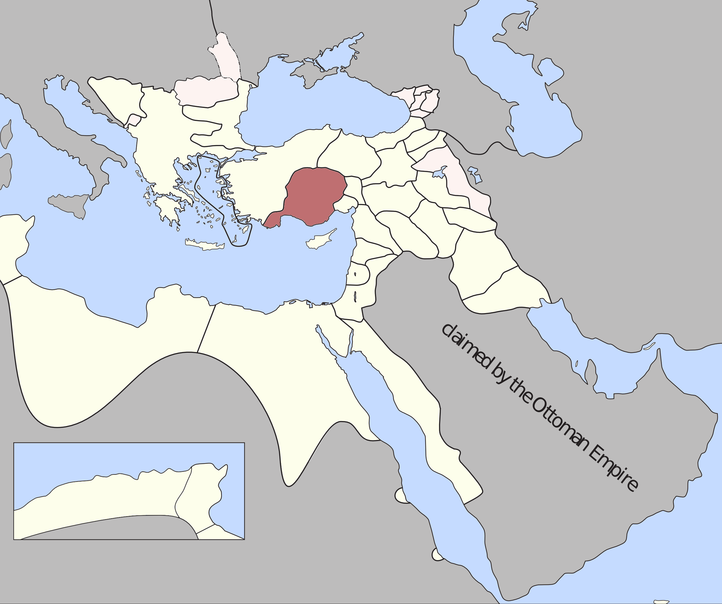 XY Eyalet, Ottoman Empire (1795). Source: A Brief History of the Late Ottoman Empire at Google Books By M. Sukru Hanioglu, Figure 1